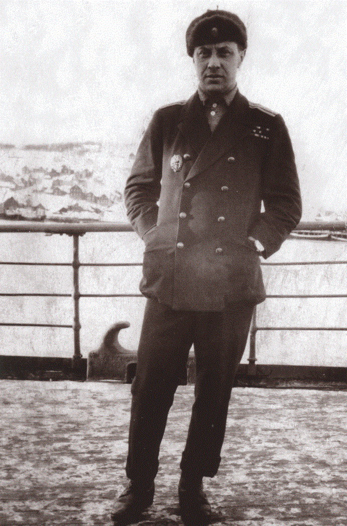 Chaplin Georgii Ermolaevich